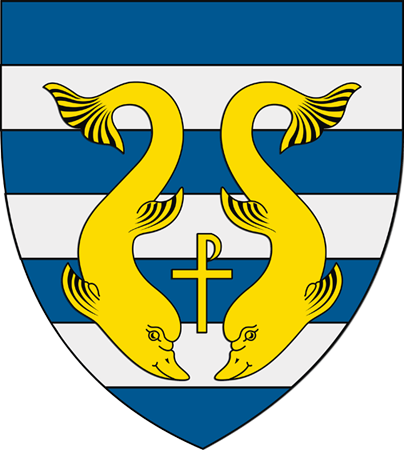 Coat of arms of Tulcea County, Romania.